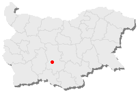 Map of Bulgaria, the red point is the position of Plovdiv.